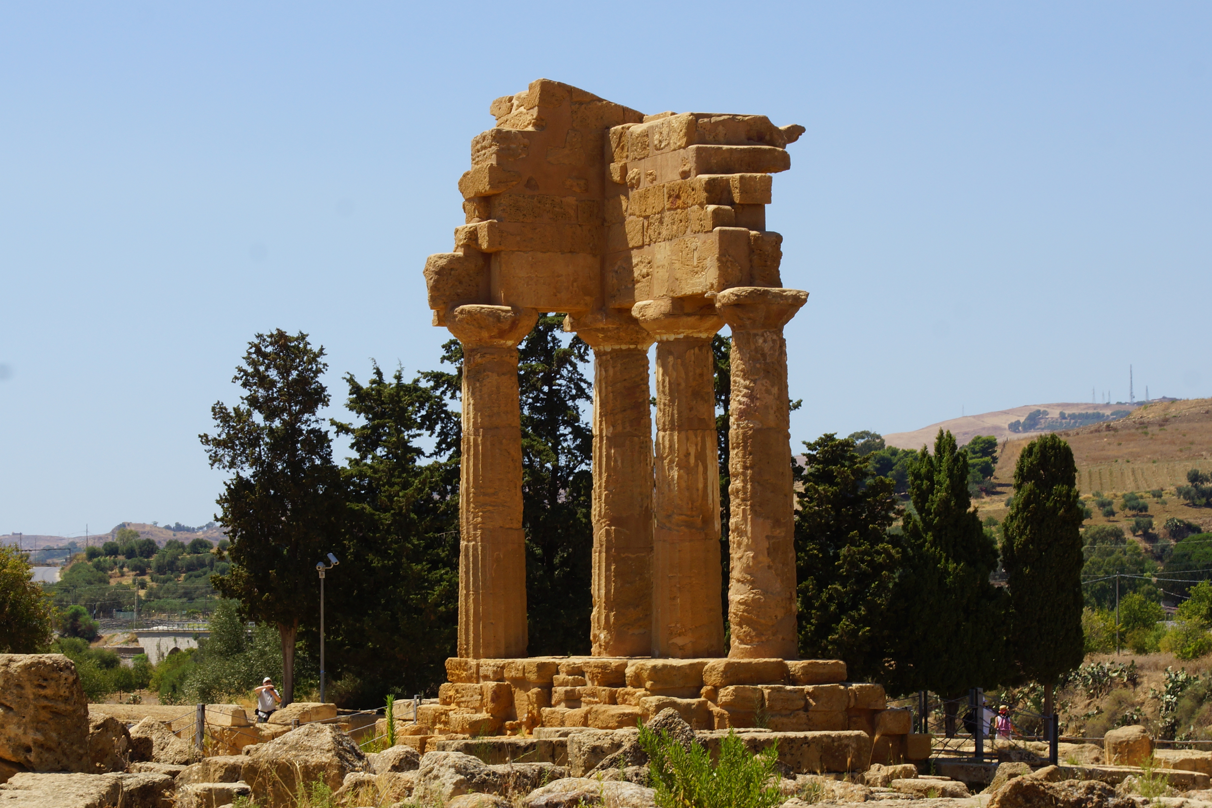 Temple of Dioscures 5th century BC Temple of Castor and Pollux Valley of the Temples Agrigento Sicily Italy Photo Wolfgang Pehlemann DSC07453